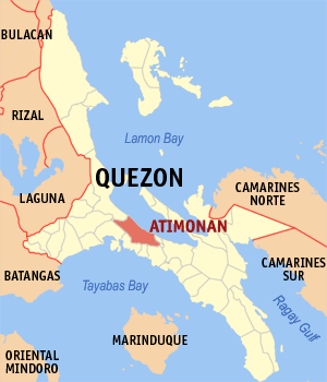 Map of Quezon showing the location of Atimonan